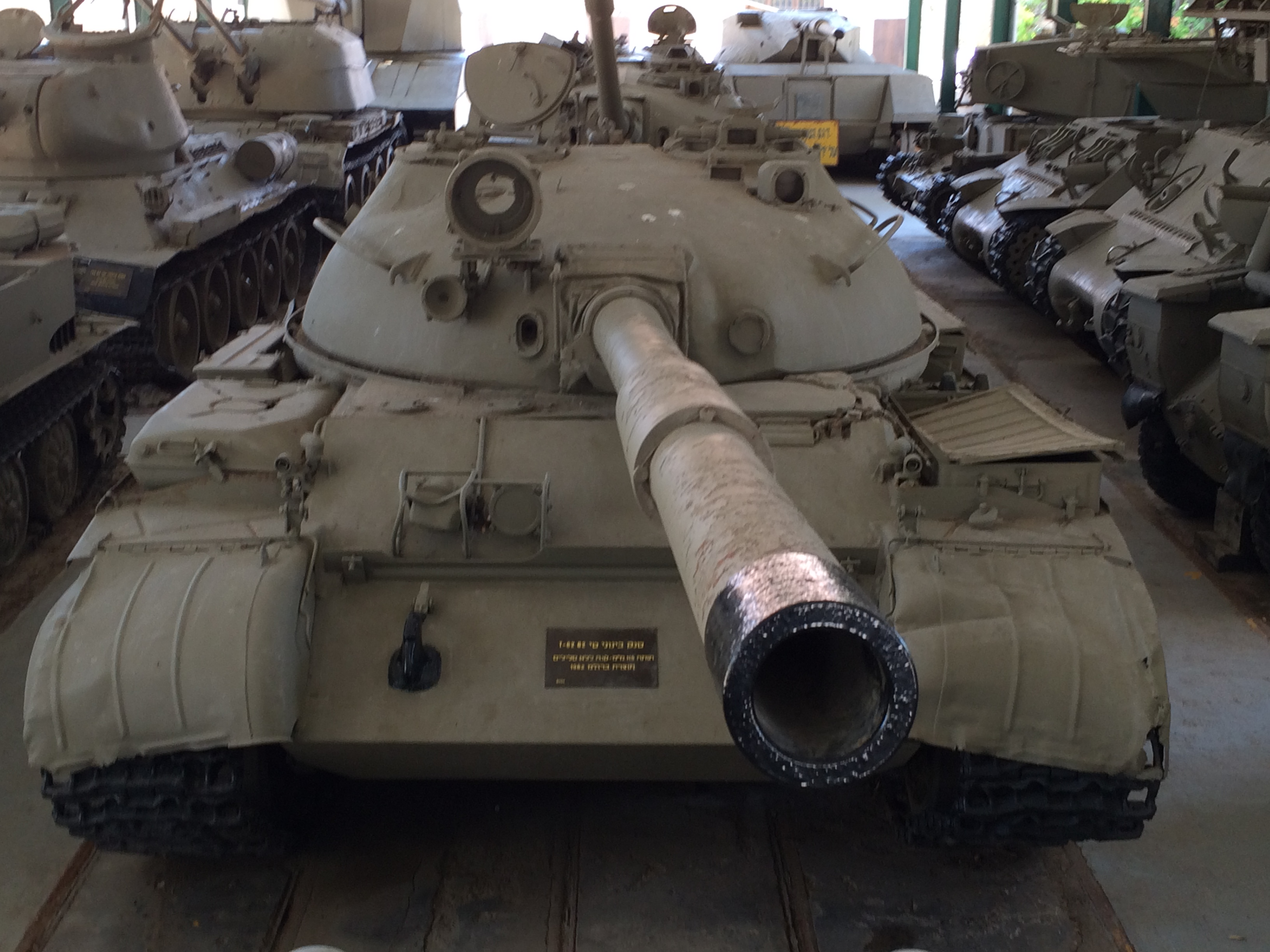 Refurbished T-62 tank at the Israeli Defense Forces/Batey haOsef Museum in Tel-Aviv, Israel.